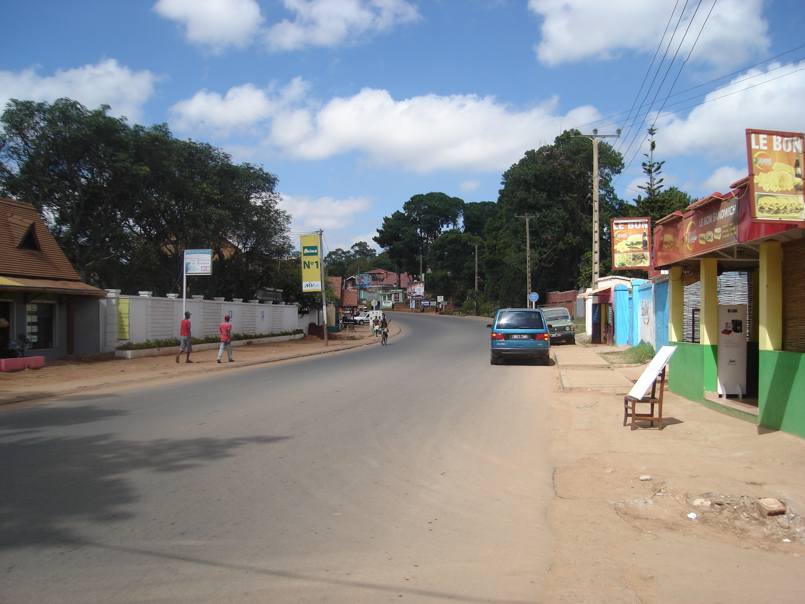 Madagascar, national Road No. 52 between Talatamaty and Ivato International Airport